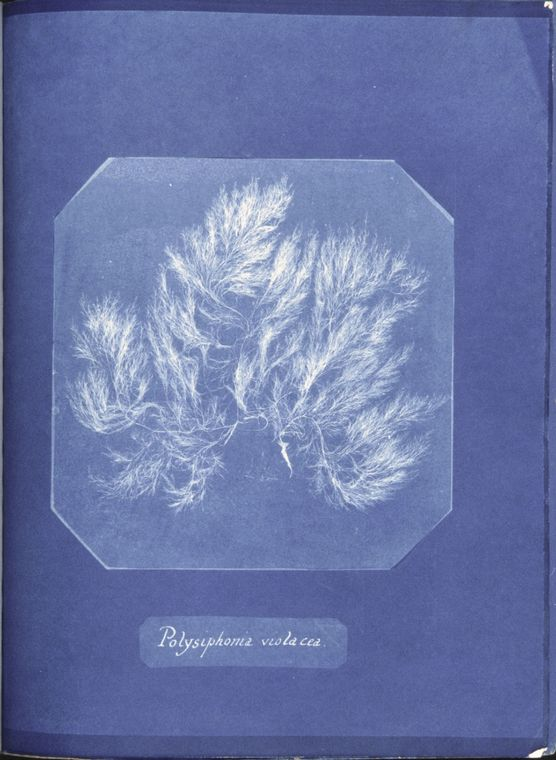 Polysiphonia violacea Cyanotype photogram. (= Polysiphonia fucoides).